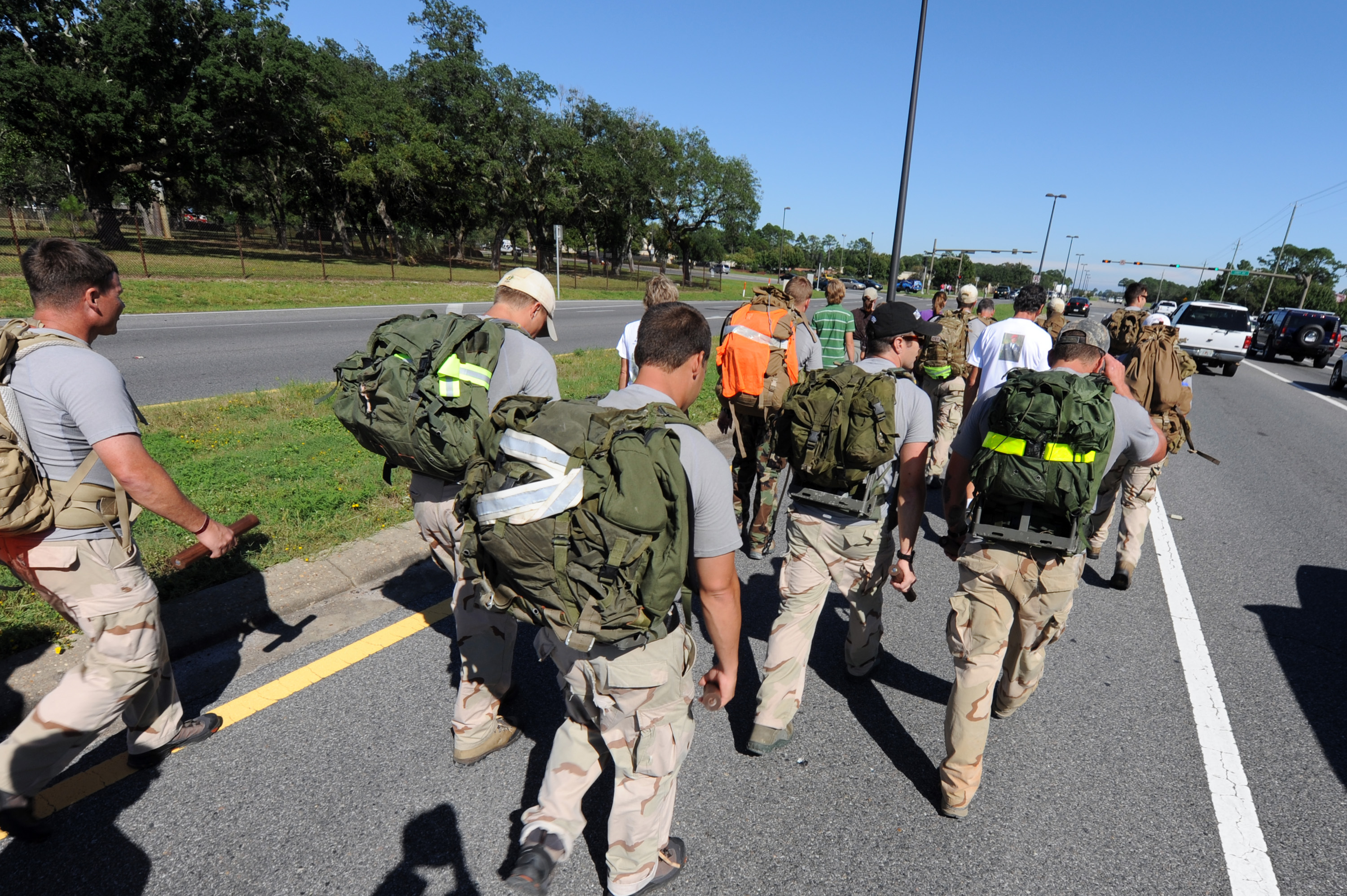 Twelve Airmen complete their last leg of a memorial ruck sack march through Ft. Walton Beach, Florida. to Hurlburt Field, Oct. 16, 2009, to honor 12 fallen special tactics teammates killed in Iraq and Afghanistan. The march began Oct. 6, 2009, at Lackland Air Force Base, Texas, and encompassed more than 800 miles and five states.